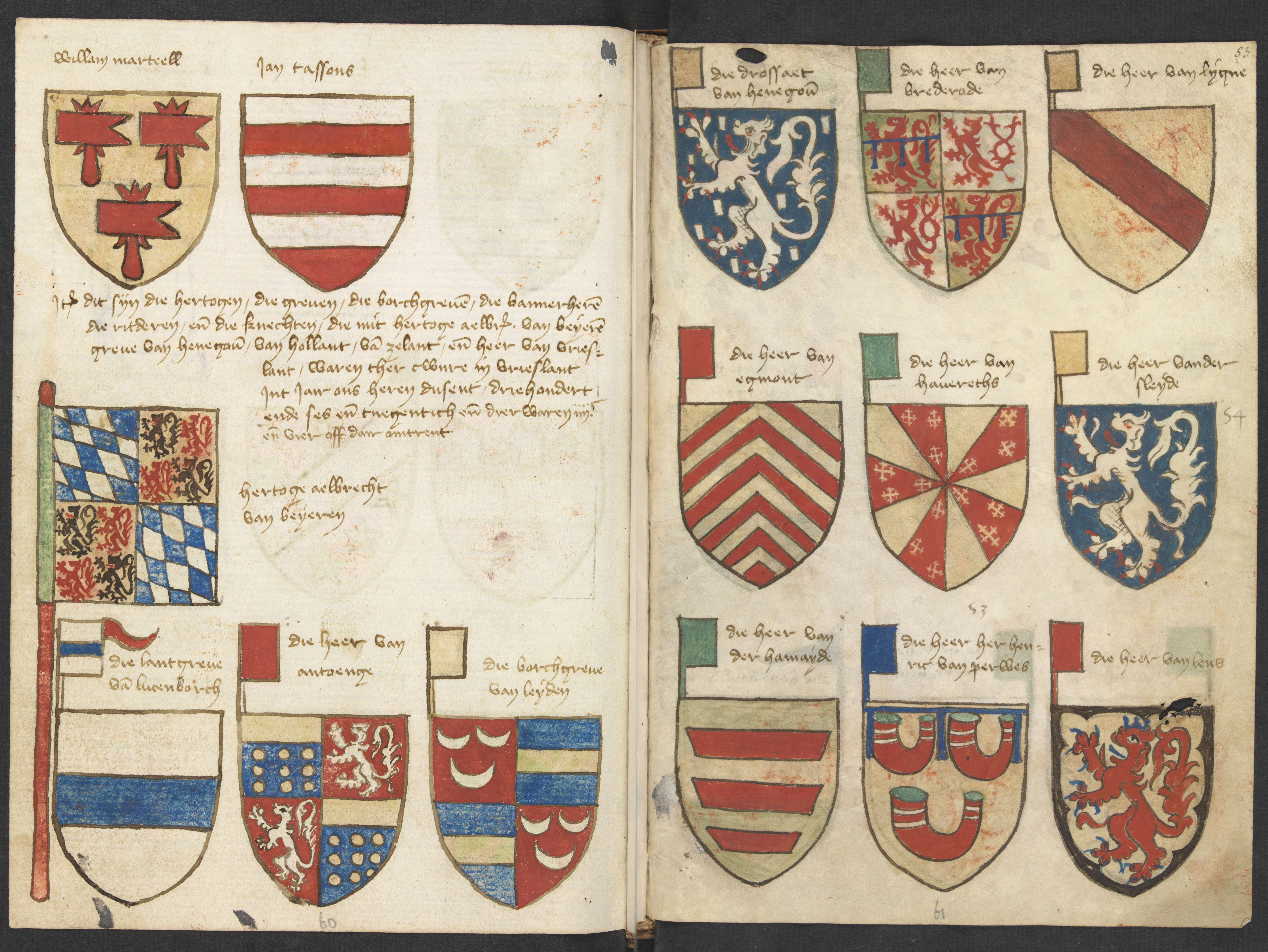 Lefthand side folio 052v; righthand side folio 053r from the Beyeren armorial / Wapenboek Beyeren